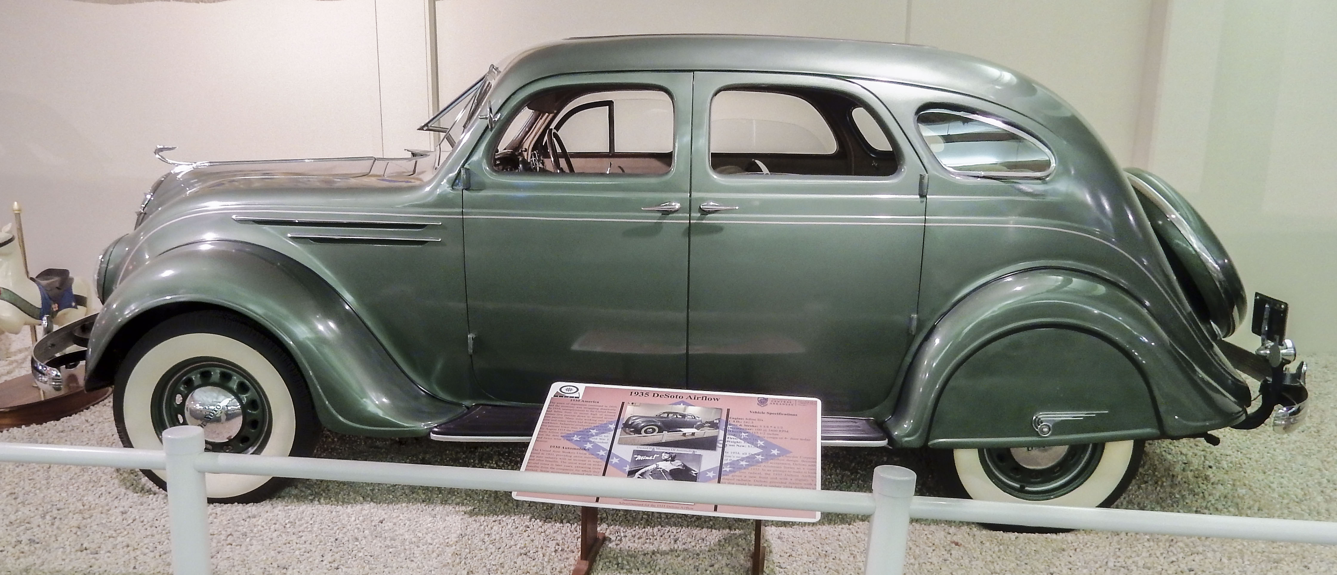 A 1935 DeSoto Airflow from The Museum of Automobiles.